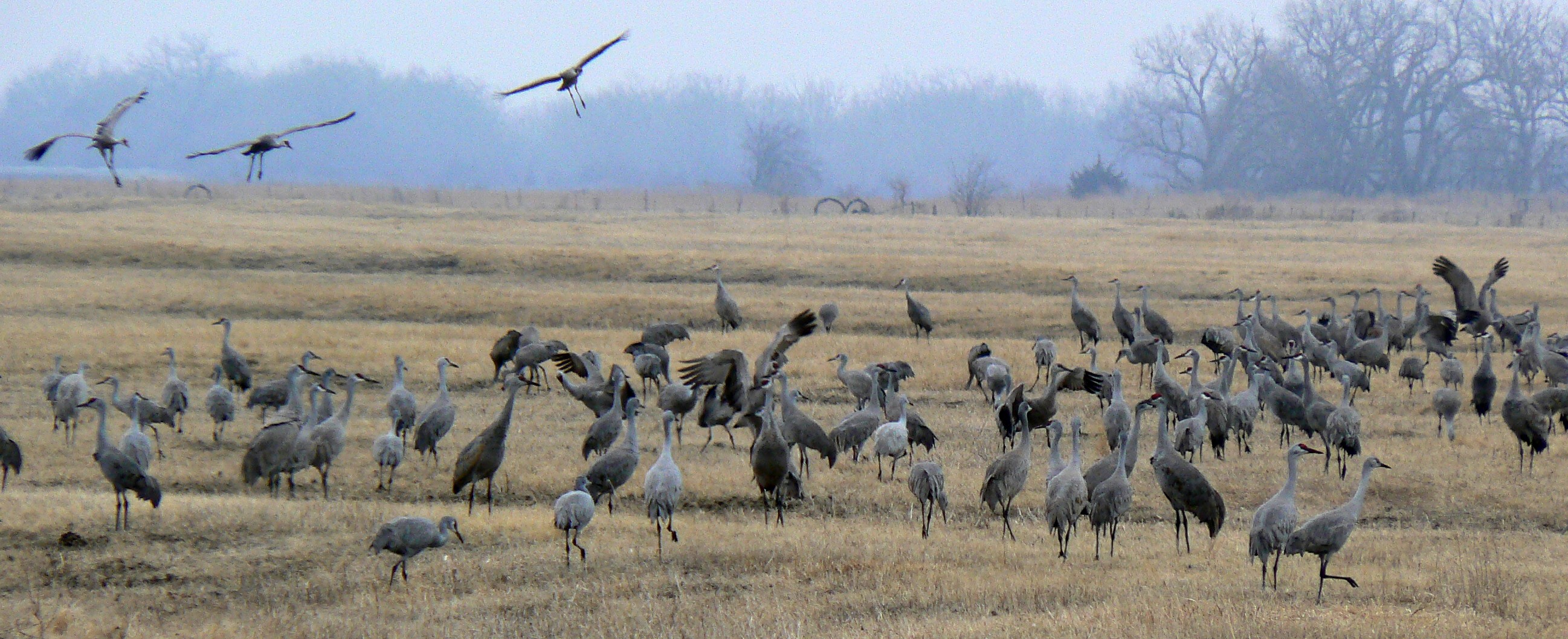 Flock of Sandhill Cranes In central Nebraska, U.S.